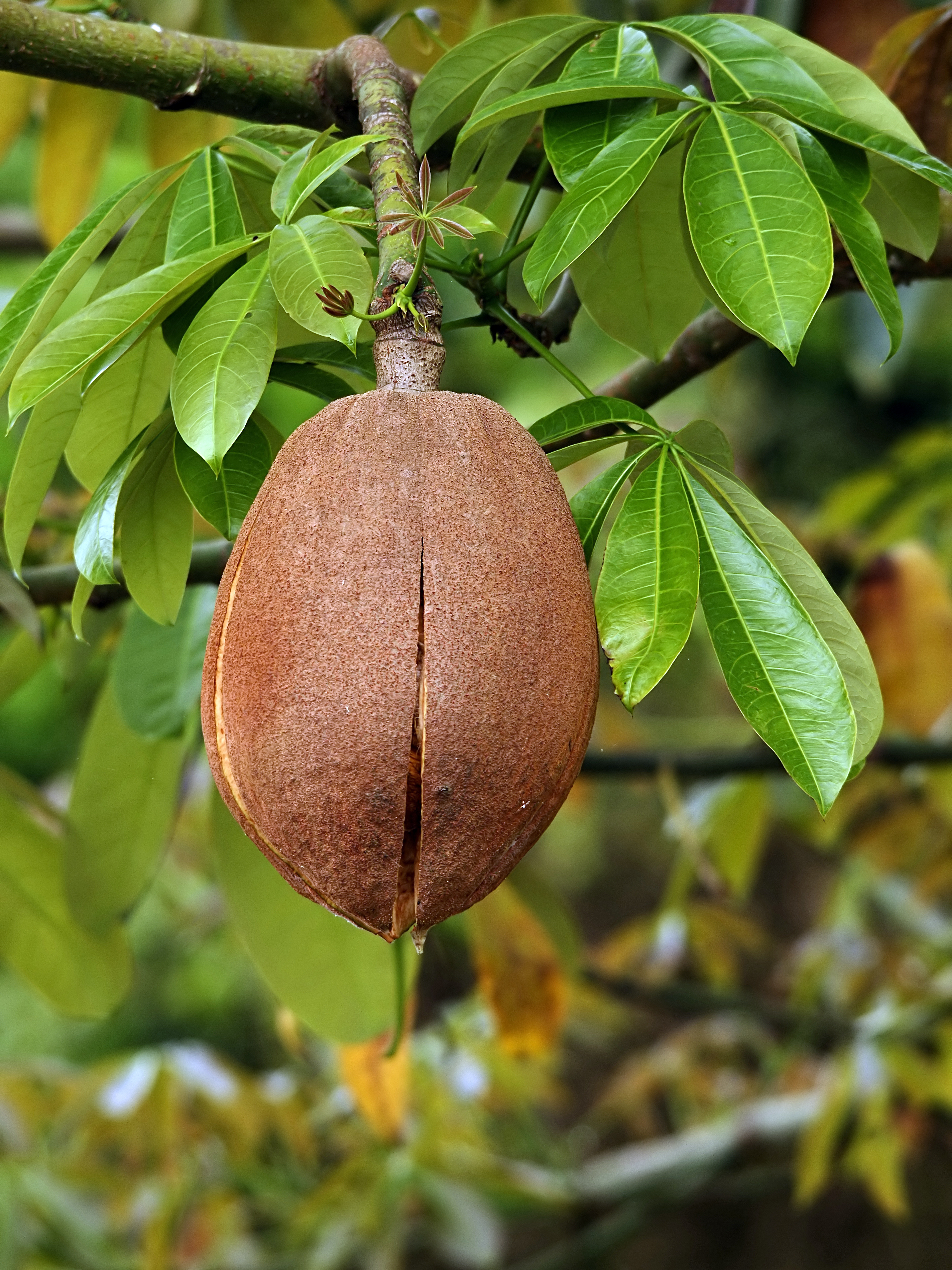 Guiana chestnut at Caño Negro, Costa Rica. See other versions for the accurate colour version